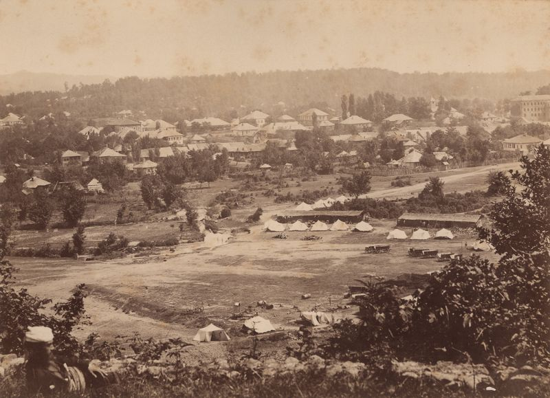 View of the Georgian town of Ozurgeti during the Russo-Turkish war in 1878